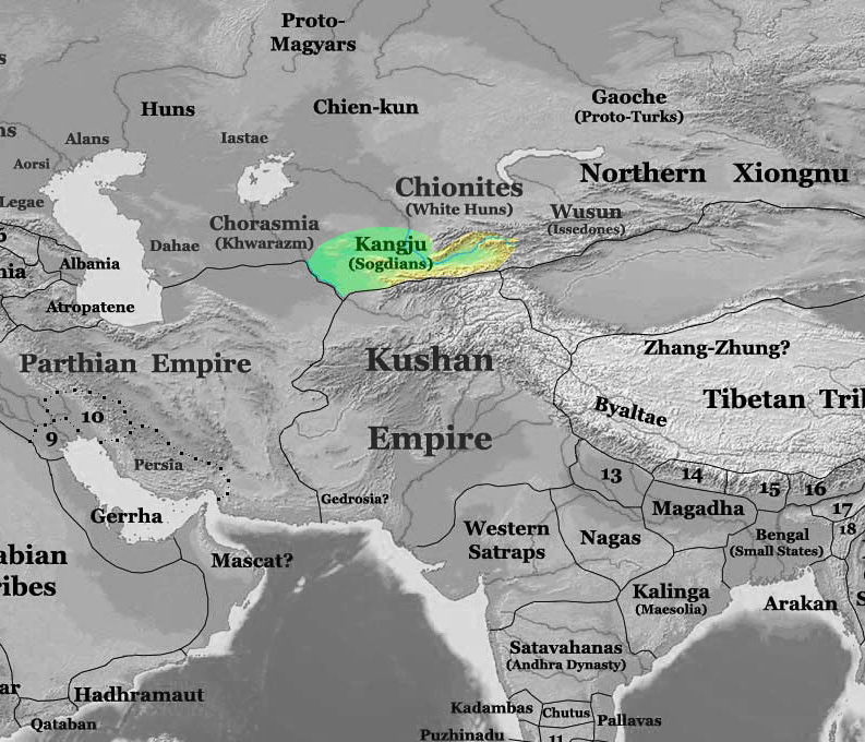 Map of the territory of the Kangju in 200 CE, adapted from Thomas Lessman's world map of 200 AD, which was obtained from and is licensed under the Creative Commons Attribution-Share Alike 3.0 Unported license.